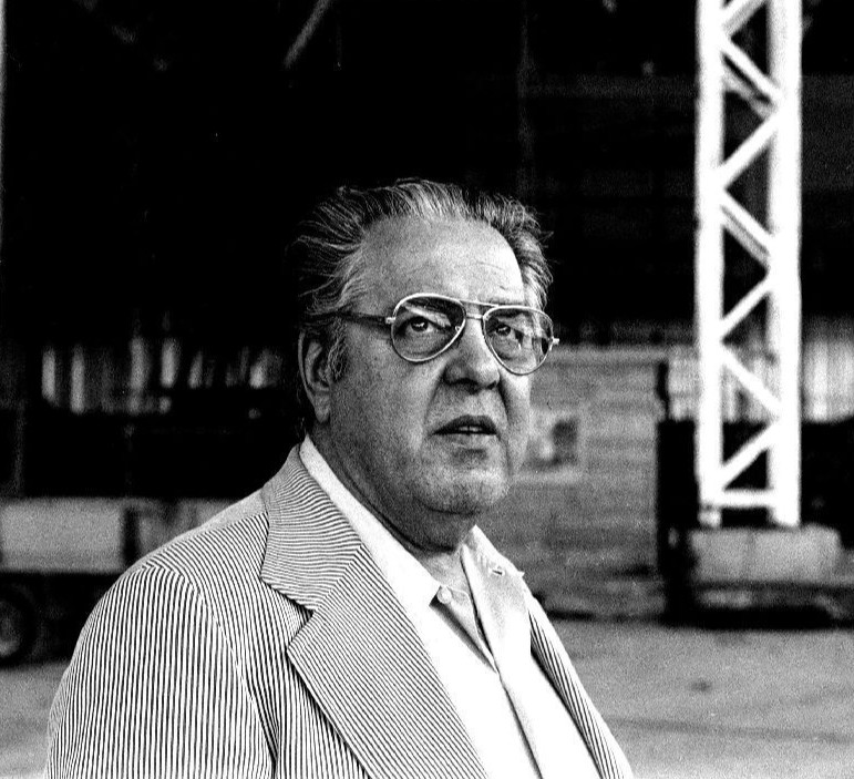 Photo of Albert "Cubby" Broccoli, who was the producer of the James Bond films.